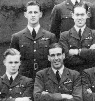 102 Squadron photo showing Frank Hugh Long (center) with his second pilot Leonard Cheshire (second row, far right).